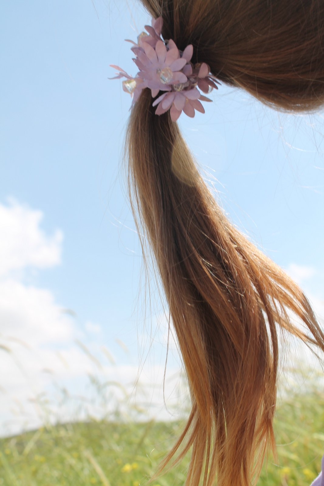 girl hair